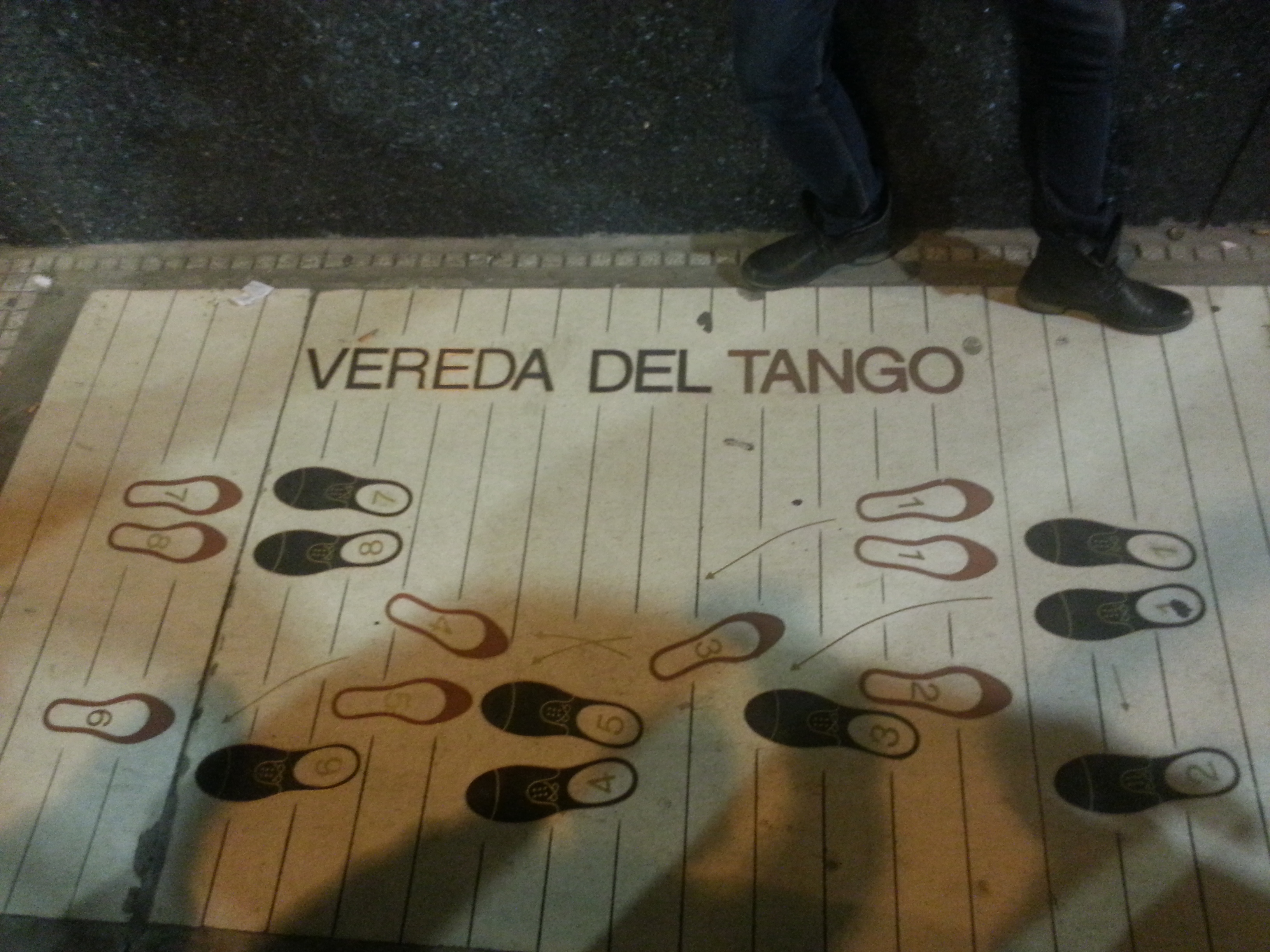 A pavement diagram in Buenos Aires, demonstrating the steps of the tango, in human scale, so people can practice right on it.